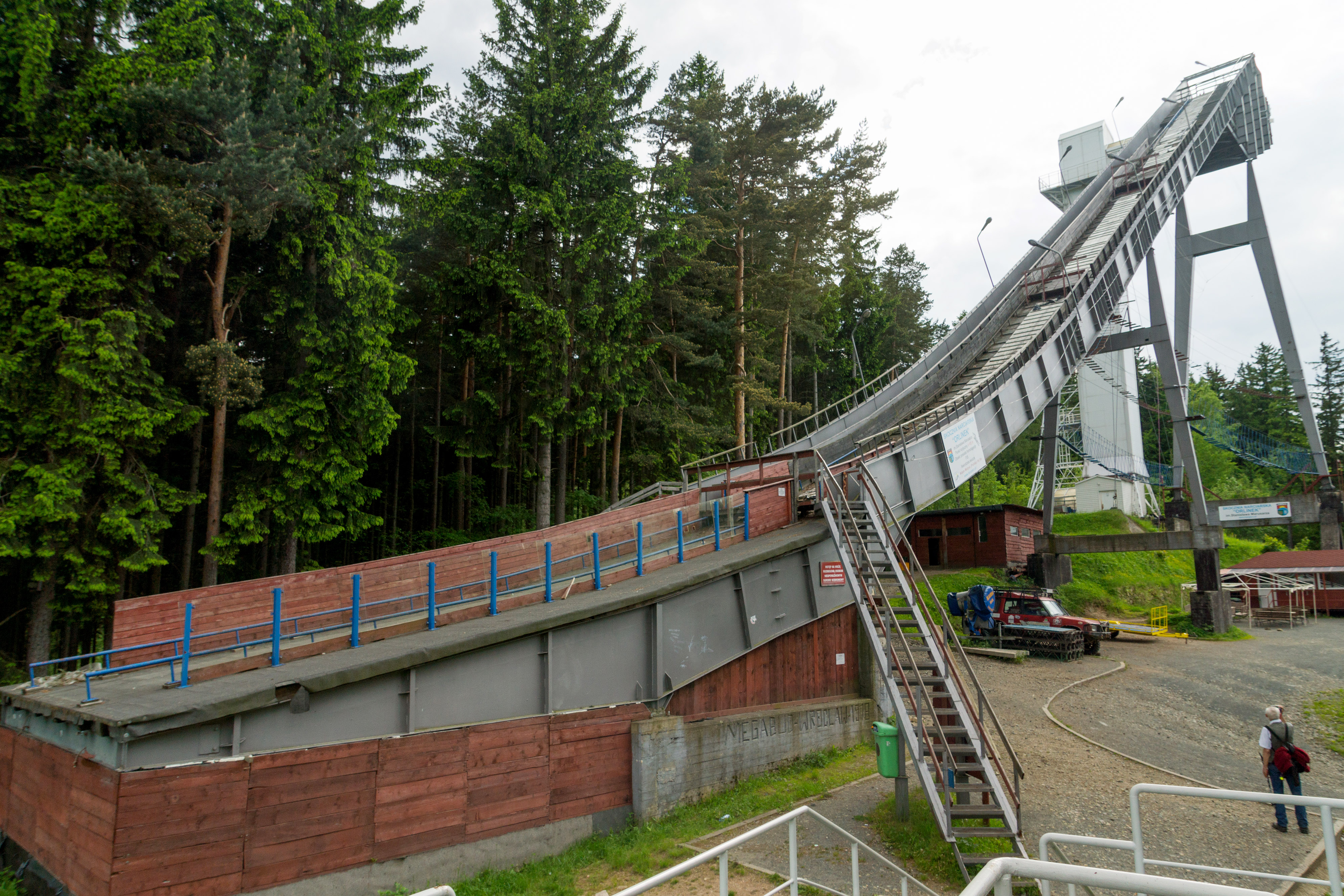 Ski jumping hill Orlinek (K85) is being used as viewing point during the summer season.